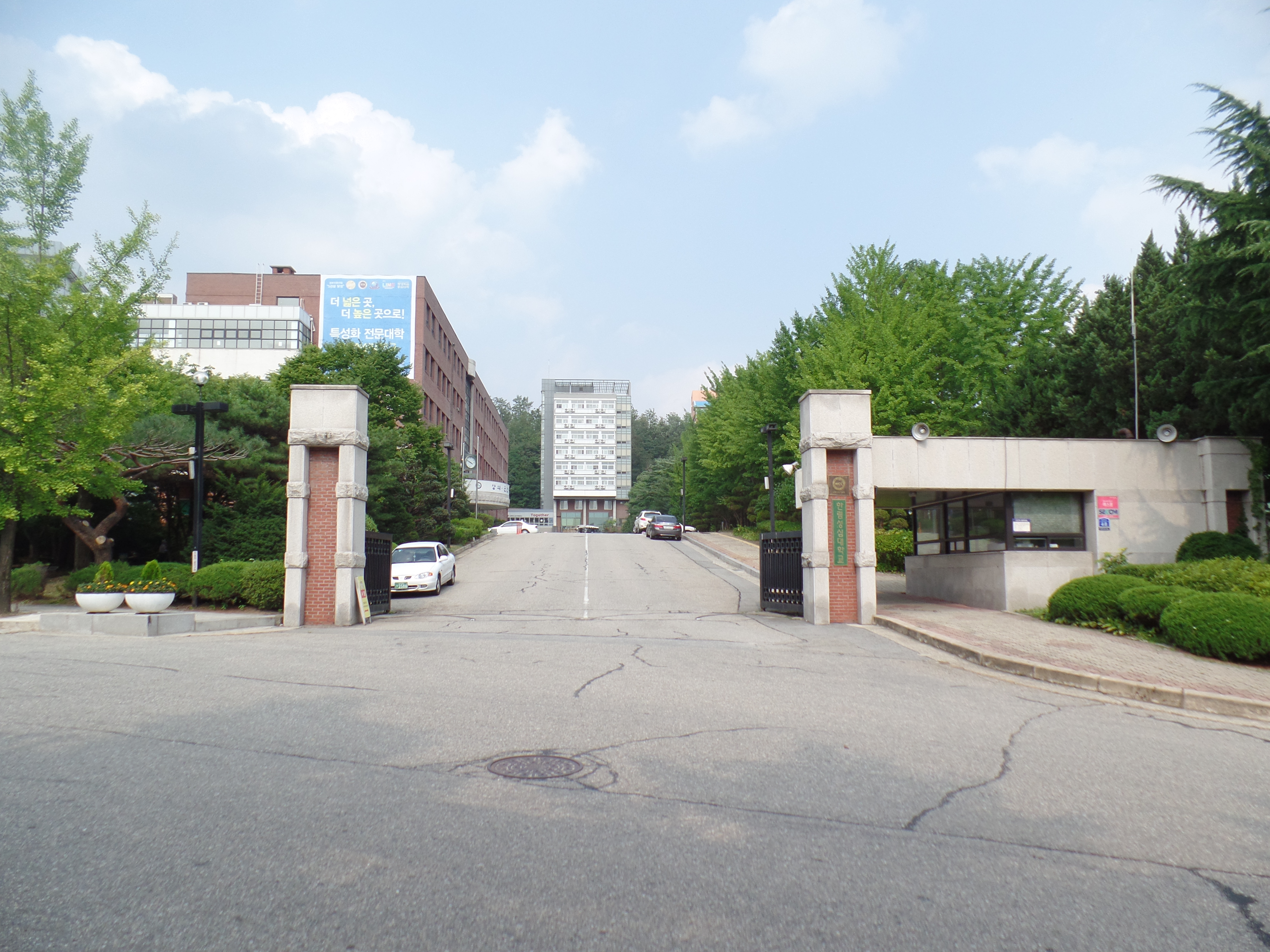 Entrance of Hallym Polytechnic University Main Building, Annex Building and Professors Hall